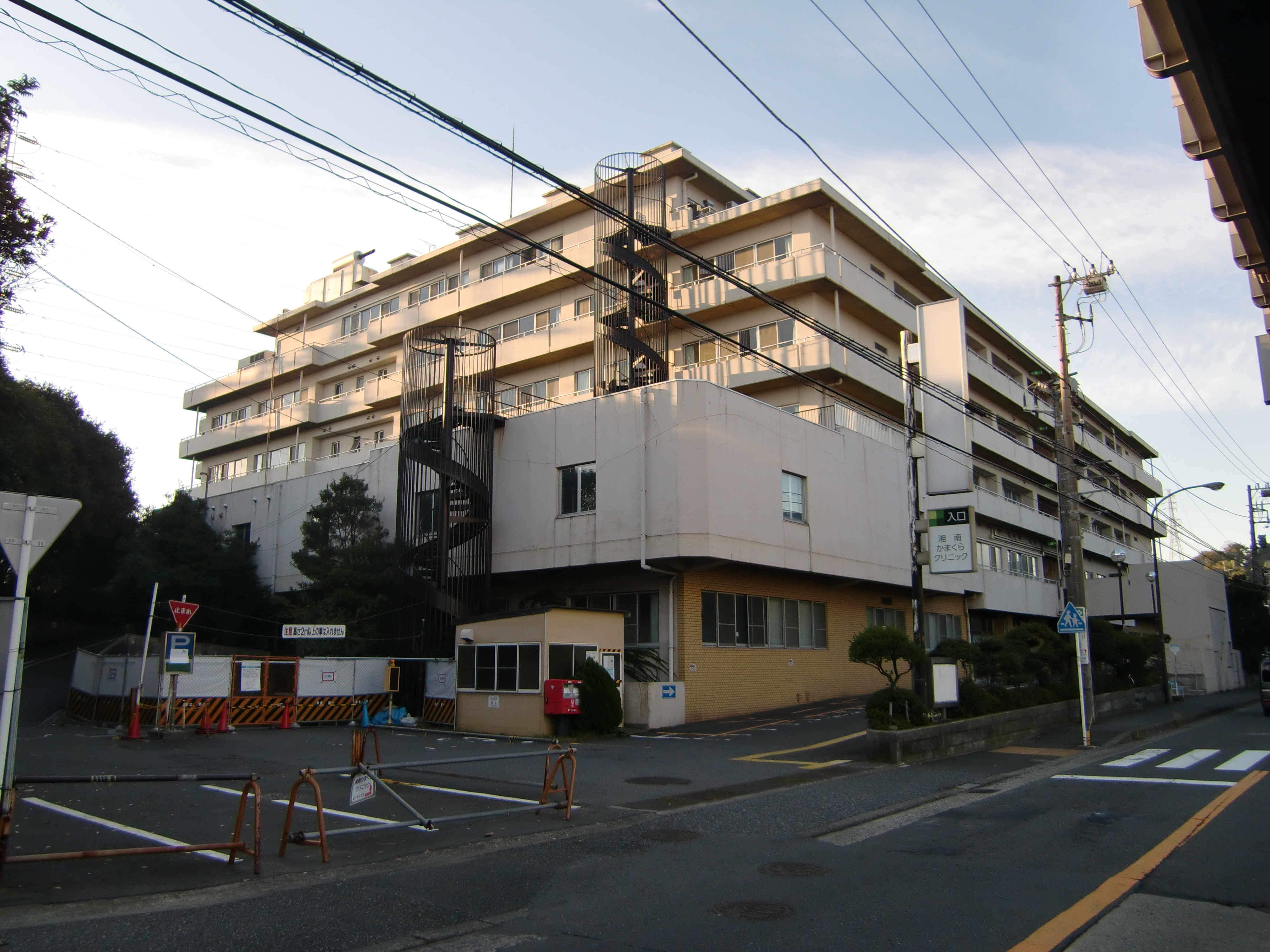 Shonan Kamakura General Hospital Old hall